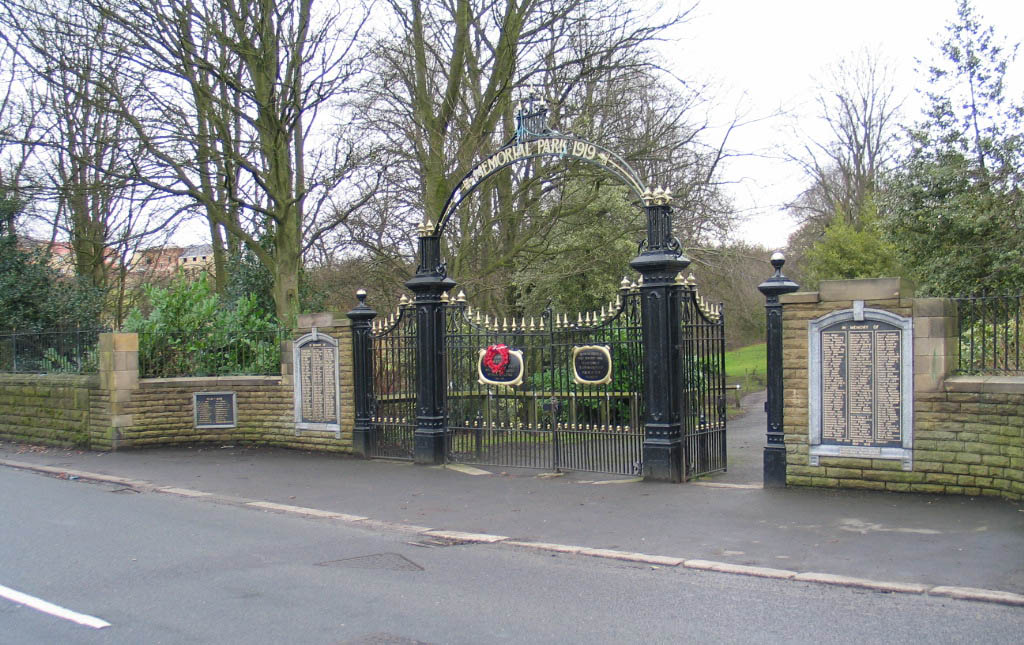 Gates of South Moor Park, at the bottom of the valley between Oxhill and Quaking Houses in County Durham, England. The gates act as a war memorial, with the plaques on either side listing the names of local people who died in the First World War.